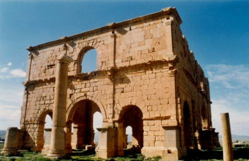 Lambese, (Algeria) photo token by M.GASMI 2005. Source= Own photograph by uploader. Author= M.GASMI.